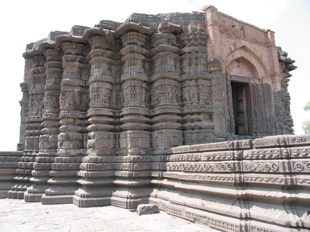 Daitya Sudan Temple. The carving are similar to that of Khajurao